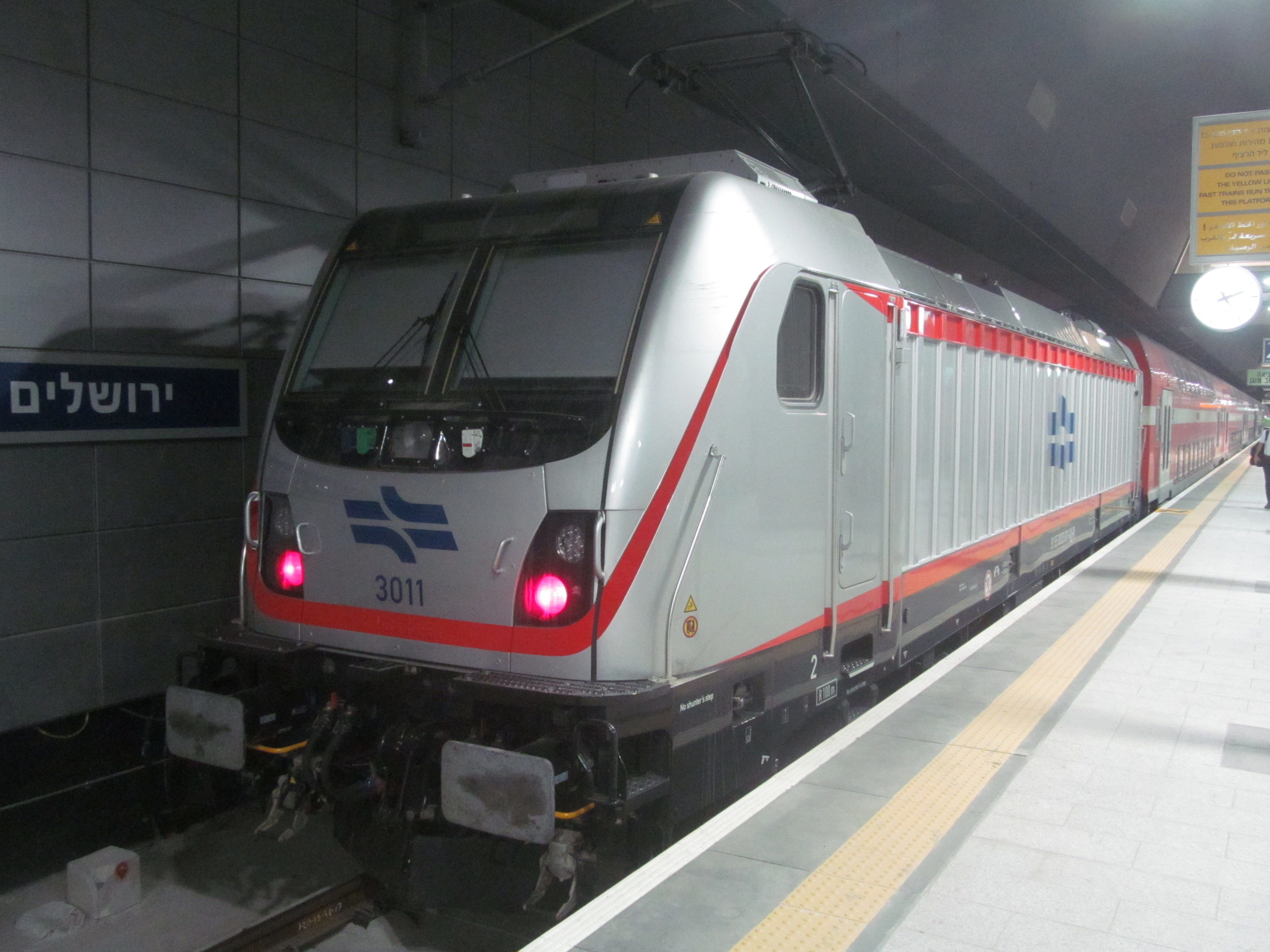 Bombardier TRAXX P160 AC3 No. 3011 at Jerusalem–Yitzhak Navon railway station Like File:Navon rail station 3.jpg but a better view.